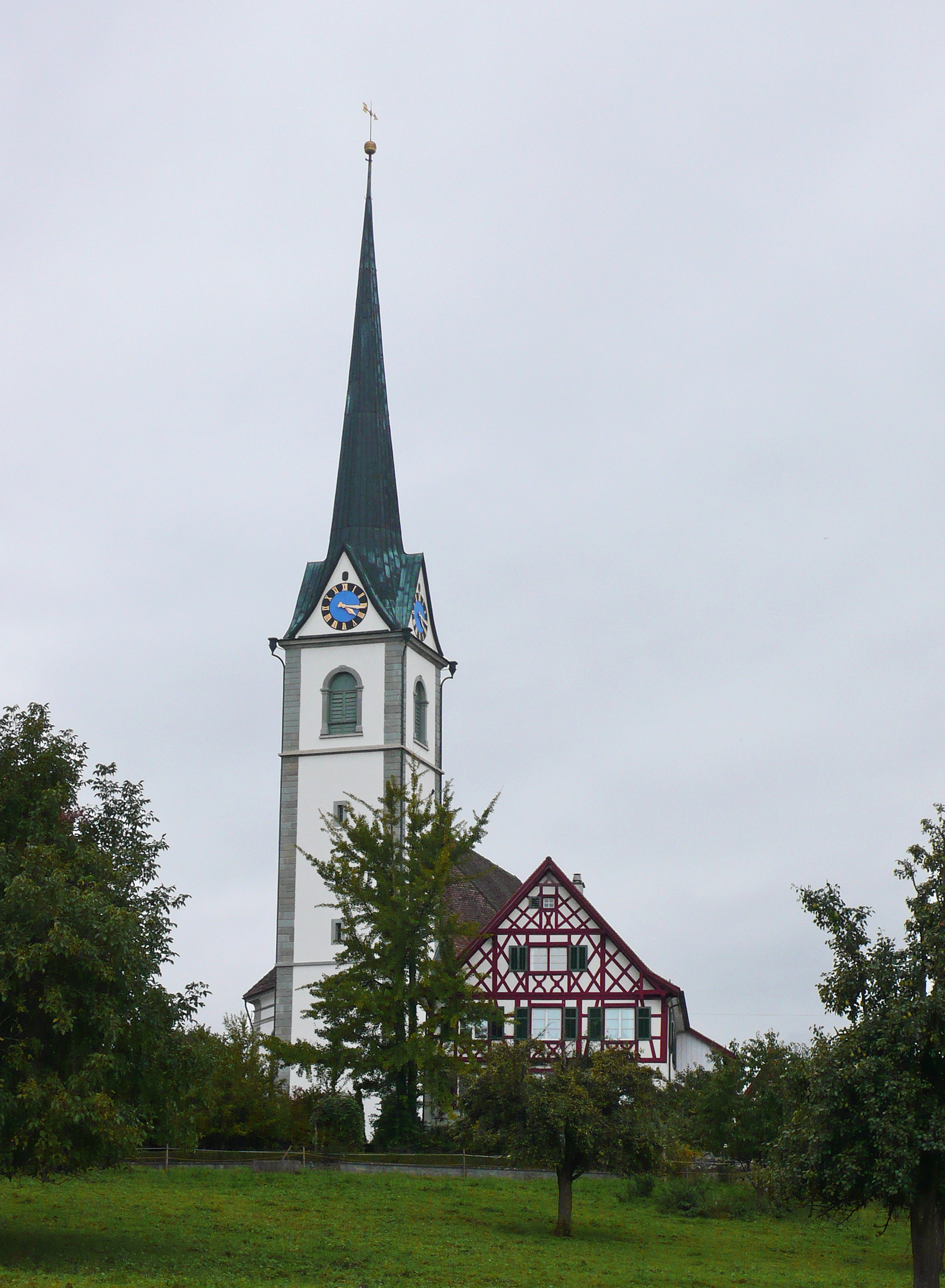 Steeple of the protesatant church of Altnau, Switzerland. Timber framing house.